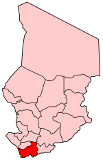 Map of Chad showing Logone Oriental region.